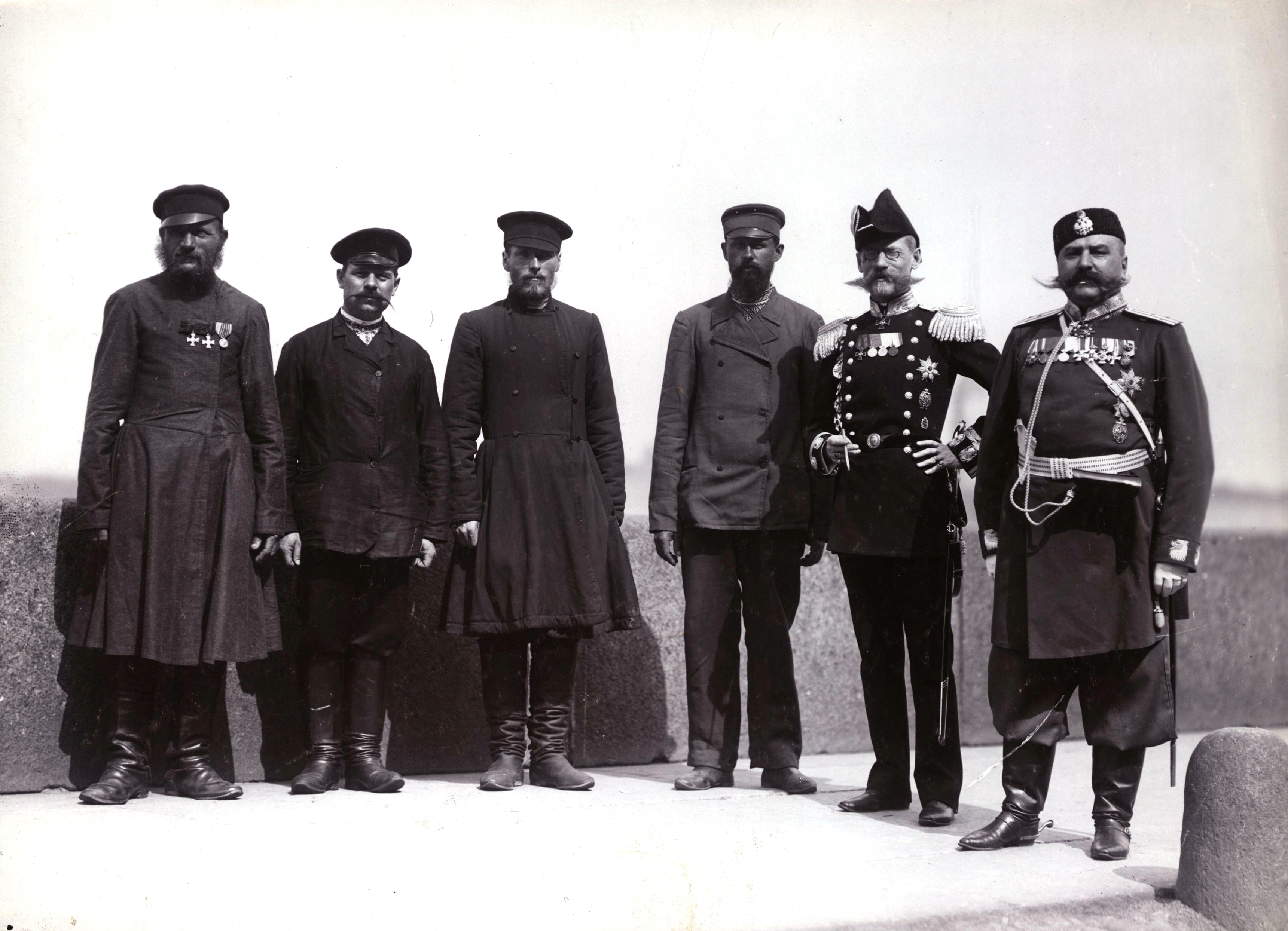 Members of First State Duma: I. Kirilenko, S. Gotovchits, M. Krutkin, M. Filonenko